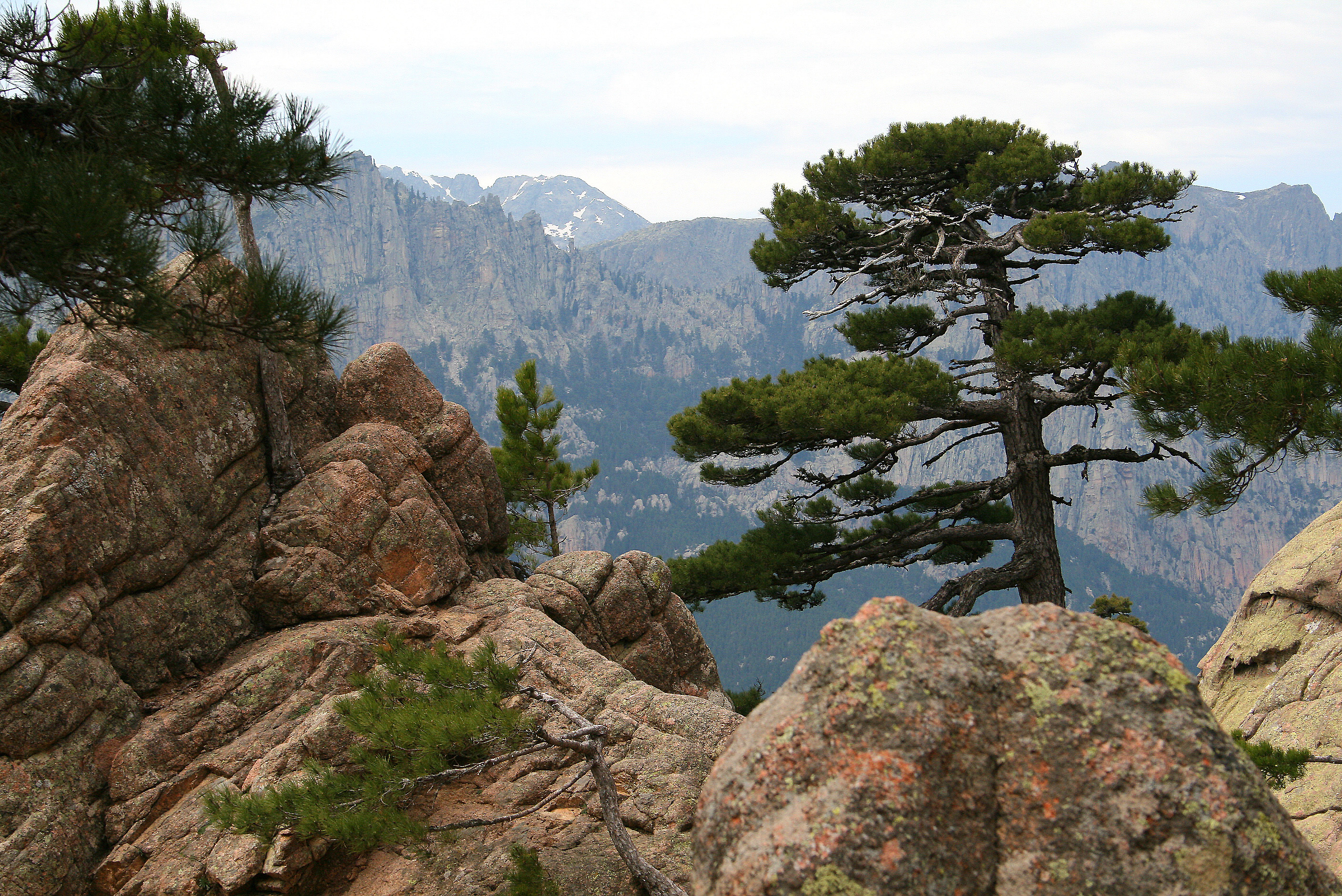 Zonza France (Corse-du-Sud), the Bavella needles. Trees are Pinus nigra subsp. salzmannii var. corsicana. Walon: Zonza France (Corse-do-Sud), les awîyes di Bavèla.